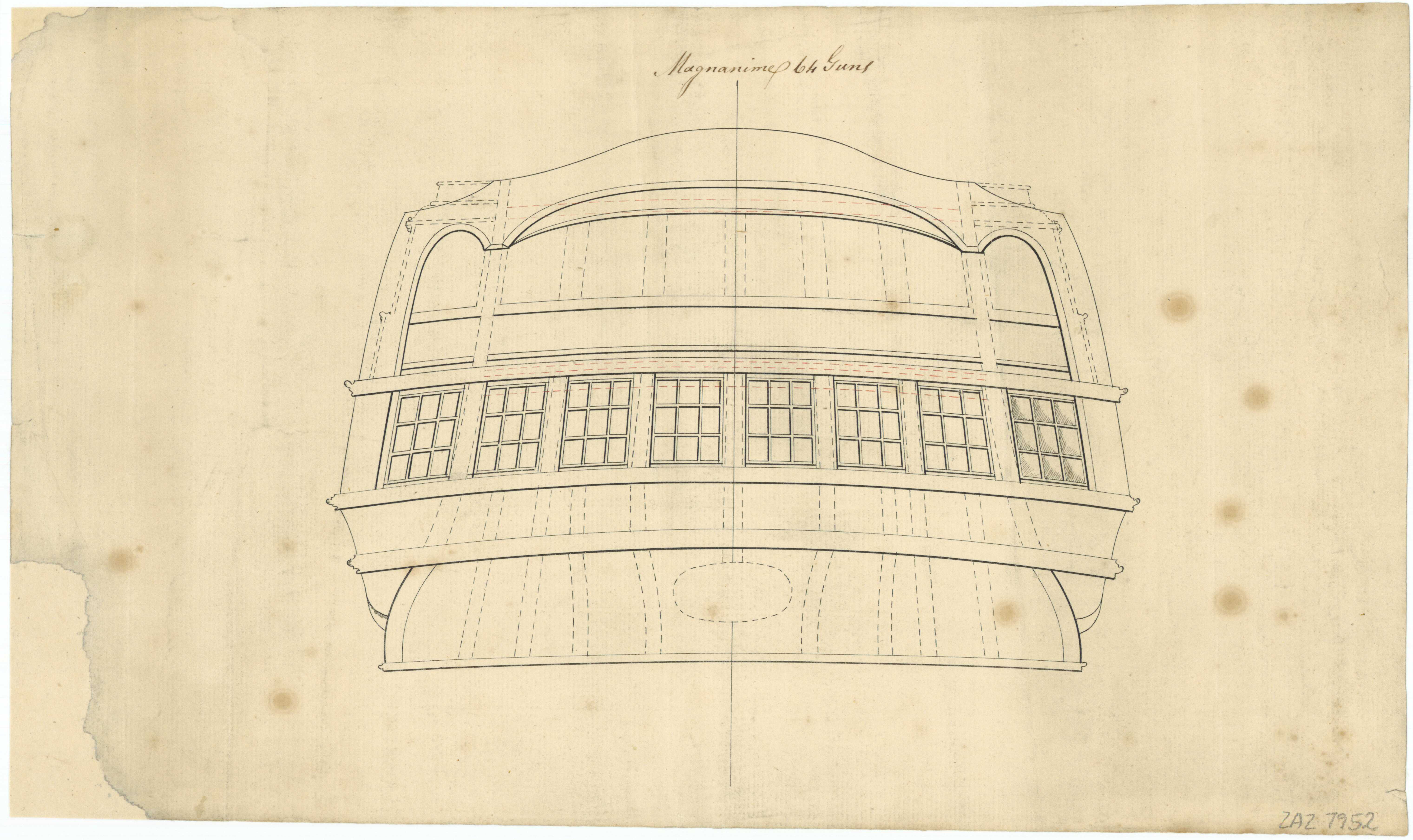 'Magnanime' (1780) Plan showing the stern from above the waterline for Magnanime (1780). From Tyne & Wear Archives Service, Blandford House, Blandford Square, Newcastle upon Tyne, NE1 4JA. MAGNANIME 1780